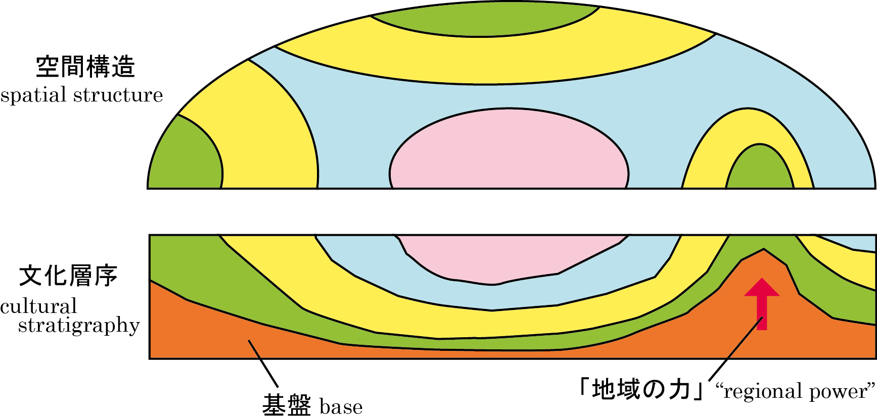 This is an image of cultural stratigraphy proposed by Japanese geographer, SAITO Isao. I created this image based on p. 18 of "Regionality of Basin in Central Japan: Cultural Stratigraphy of Matsumoto Basin"(Saito, I., Kokon Shoin, March 27, 2006, ISBN 4-7722-5105-7).